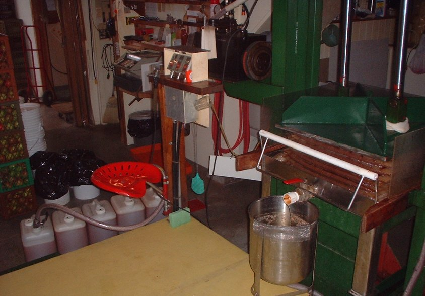 Apple cider pressing in rural community mill